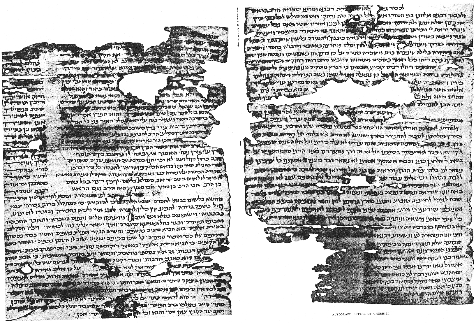 Letter of Chushiel, from Solomon Schechter (1899) in Jewish Quarterly Review (11:644-650)